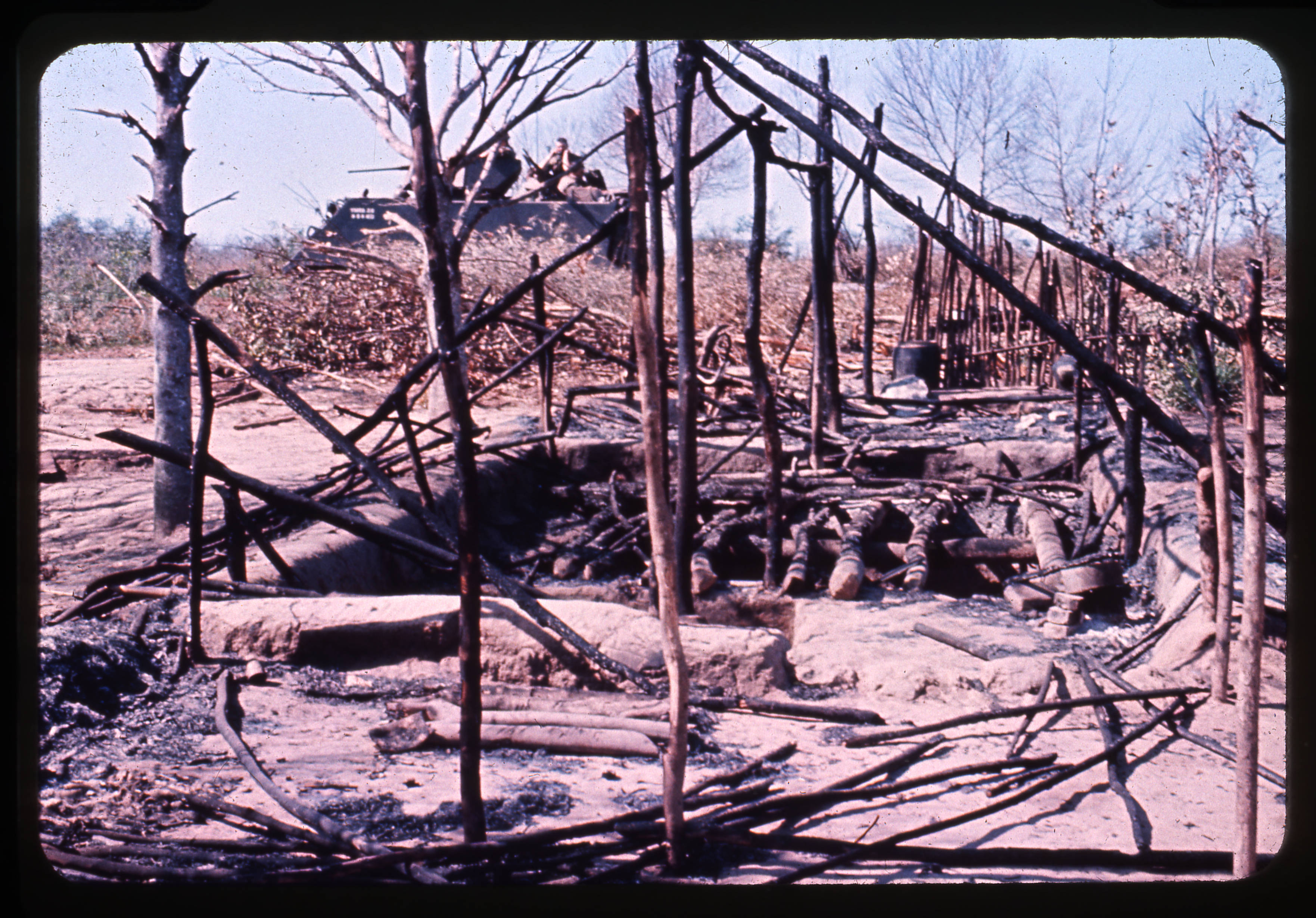 One of many Vietnamese dwellings destroyed in the Iron Triangle during Operation Cedar Falls